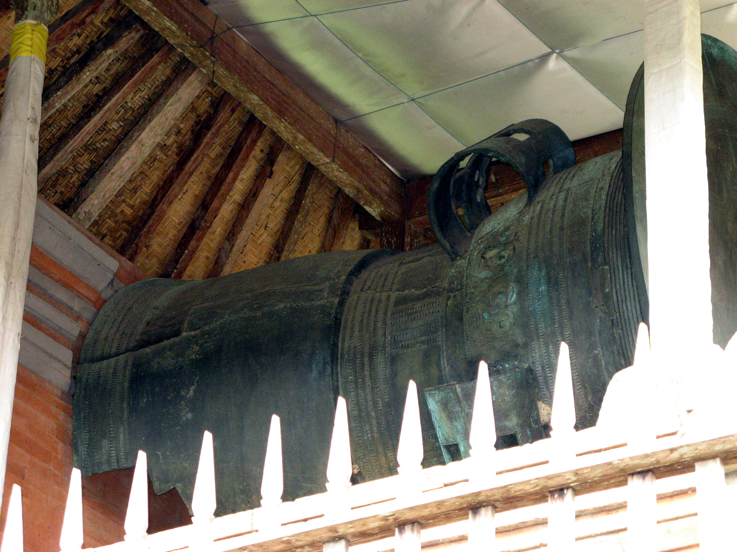 The drum is as tall as a person, measuring 186.5 cm (6.12 ft) high. It was cast from bronze by the lost-wax method in two sections, the body and the tympanum, which were then joined together. It is hard to estimate its age, but many writers consider it to be pre-Hindu, from the first millennium A.D